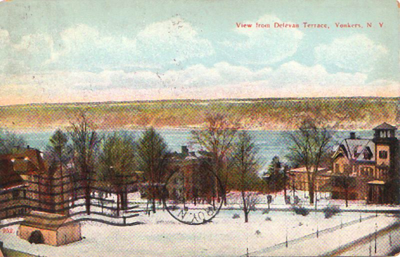 View from Delavan Terrace, Yonkers, NY, USA, shortly after street was opened in mid-1900s (decade)